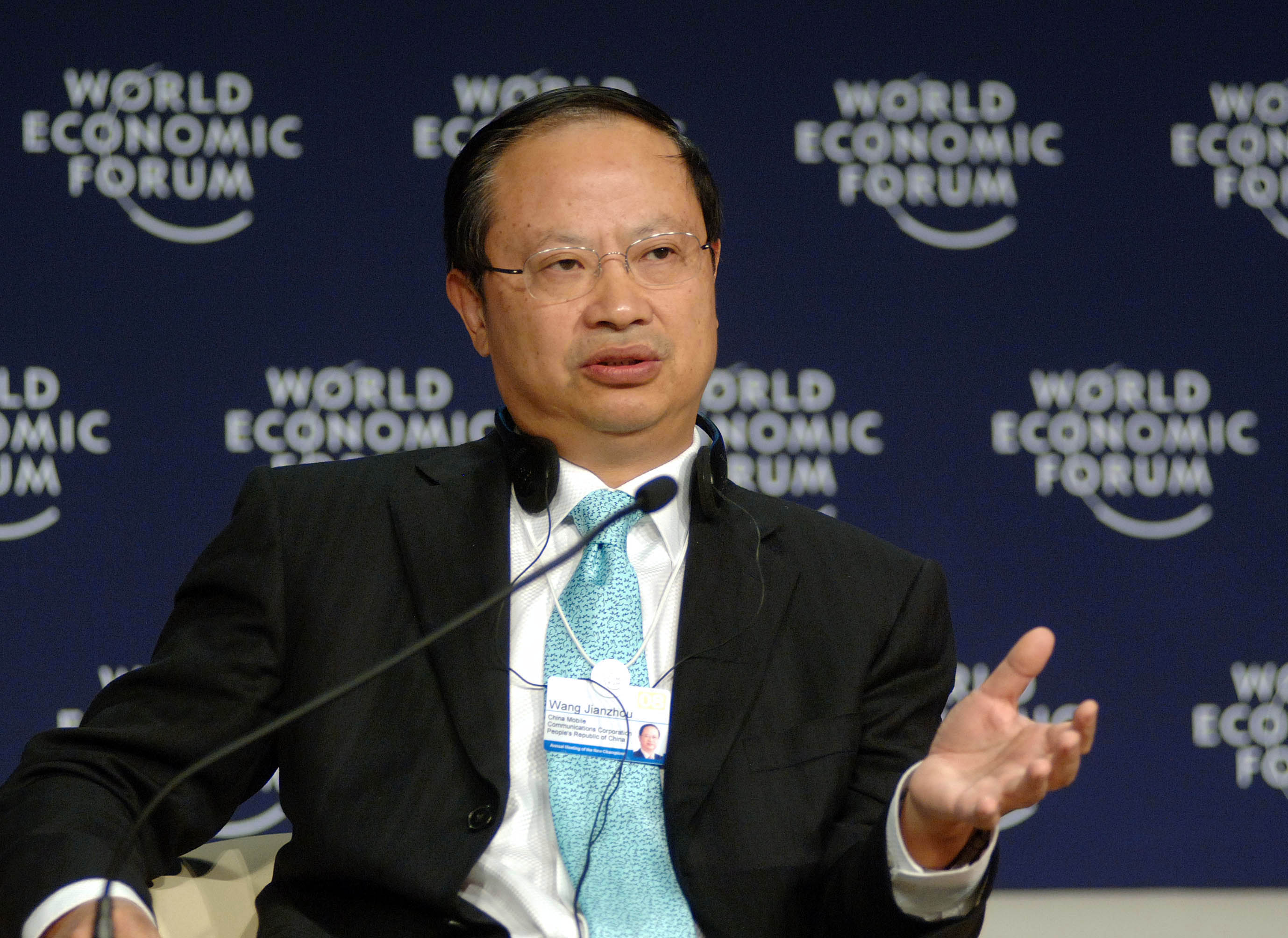 TIANJIN/CHINA, 28SEPT08 - Wang Jianzhou, Chairman and Chief Executive of China Mobile Communications Corporation, speaks during the Market Insight: Frontier Markets plenary session in Tianjin, China 28 September 2008. Copyright World Economic Forum ( by Adam Nadel